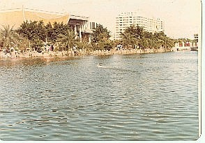 Sun Yatsen Memorial Hall in Taipei.